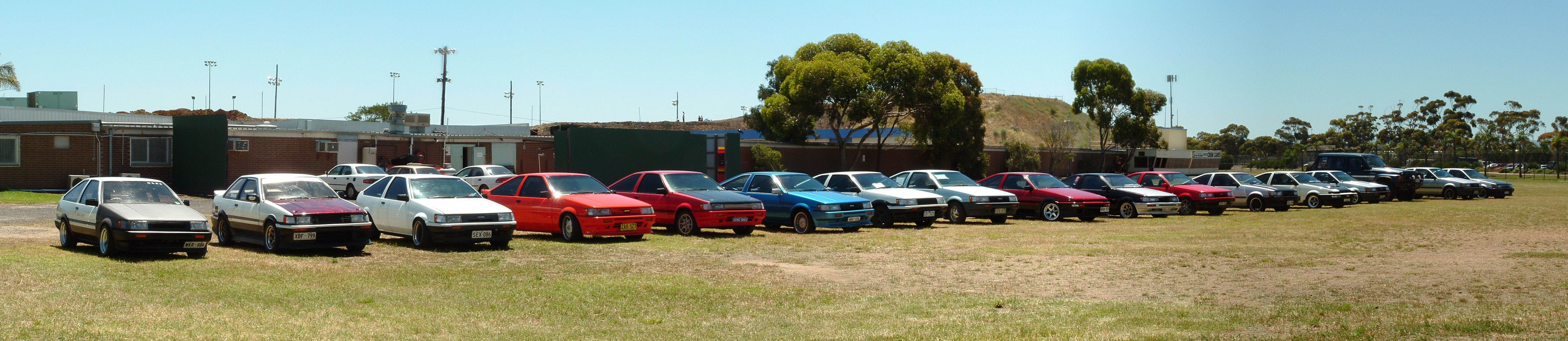 Panorama photo of several AE86s at Calder Park, Melbourne, Australia. (Autostitched.)